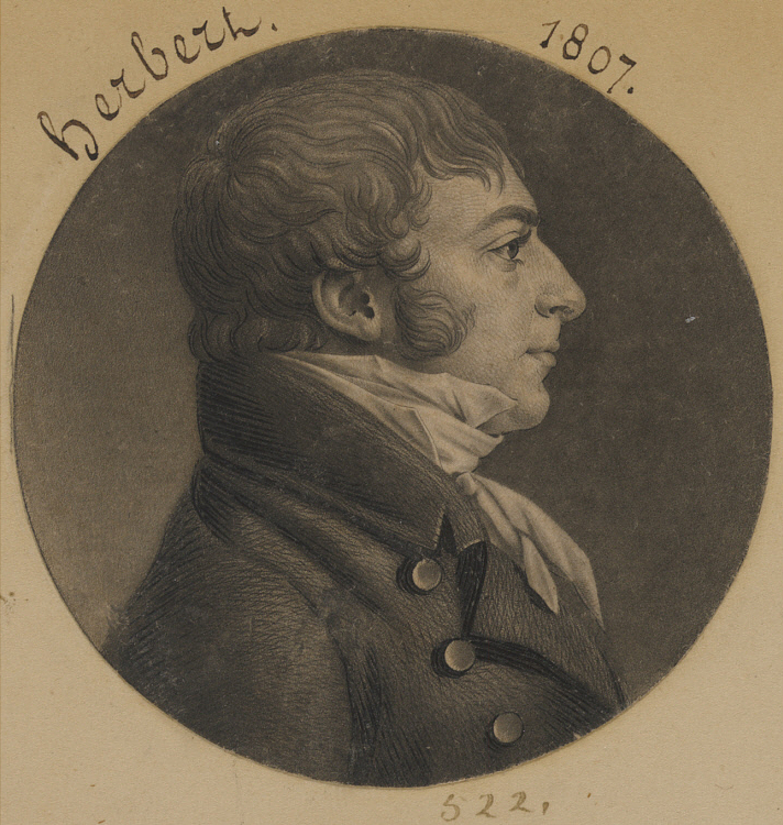 John Carlyle Herbert, 16 Aug 1775 - 1 Sep 1846